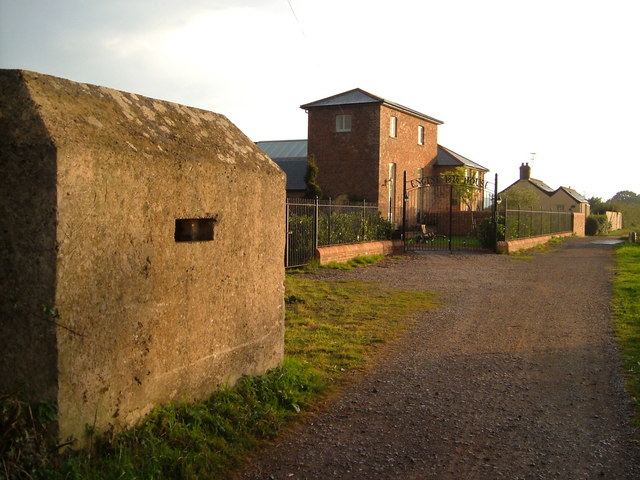 Pillbox and engine house, Charlton, Somerset. Alongside the towpath beside the Bridgwater & Taunton Canal. The engine house was derelict until recently (link) but has now been restored as a smart dwelling; the gate prominently displays the date 1826, the year before the canal became operational. The World War II pillbox, indicating the significance of the canal as a defence line in case of invasion, is apparently Type A.